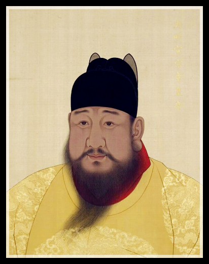 Portrait of Emperor Xuanzong of Ming Dyansty China